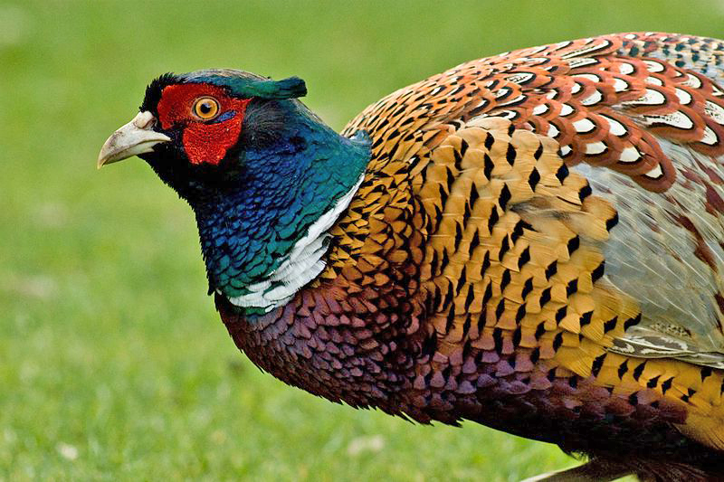 Close up of the head and body of a Common Pheasant.